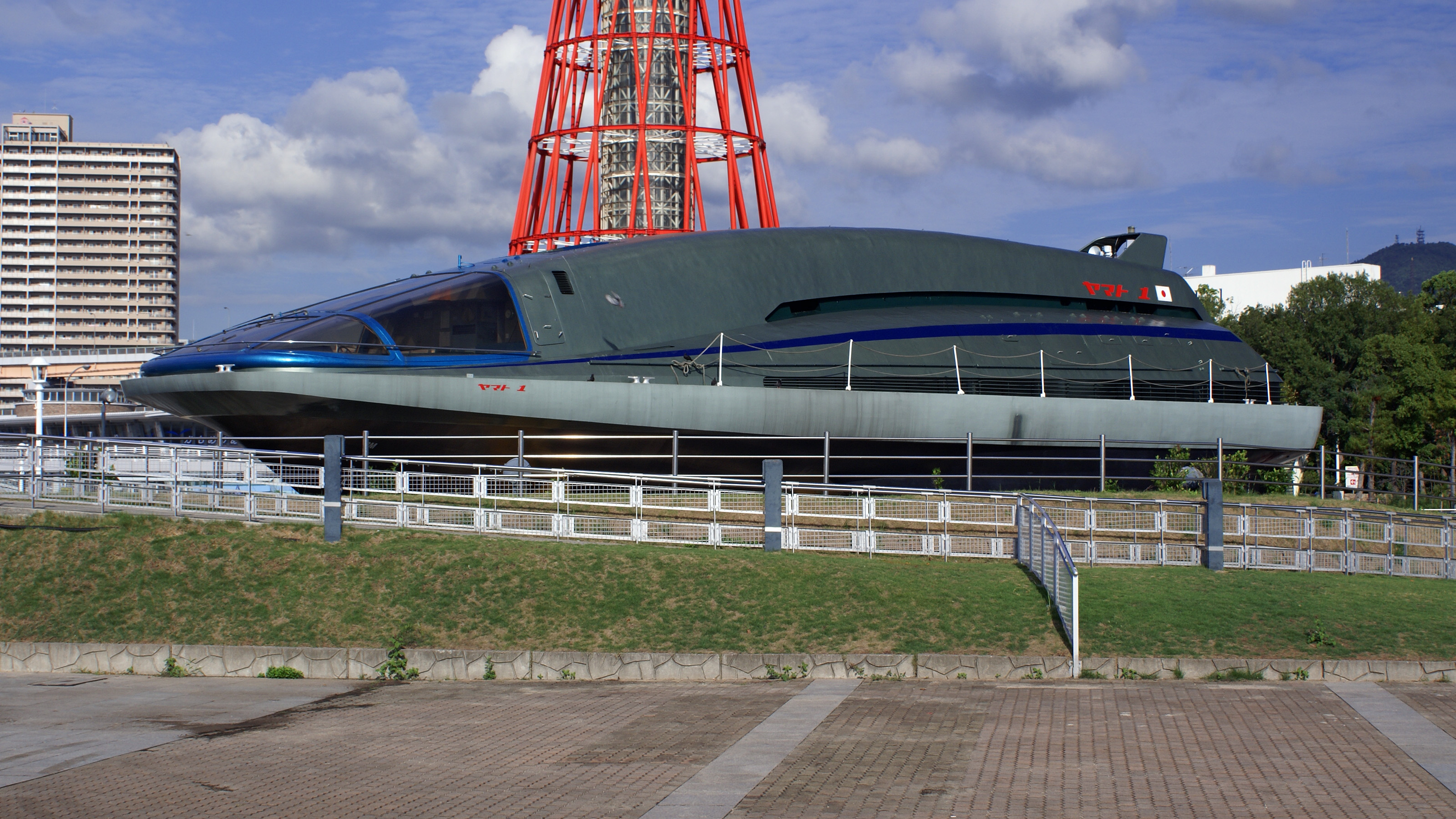 "YAMATO1" of Kobe Maritime Museum in Kobe, Hyogo, Japan